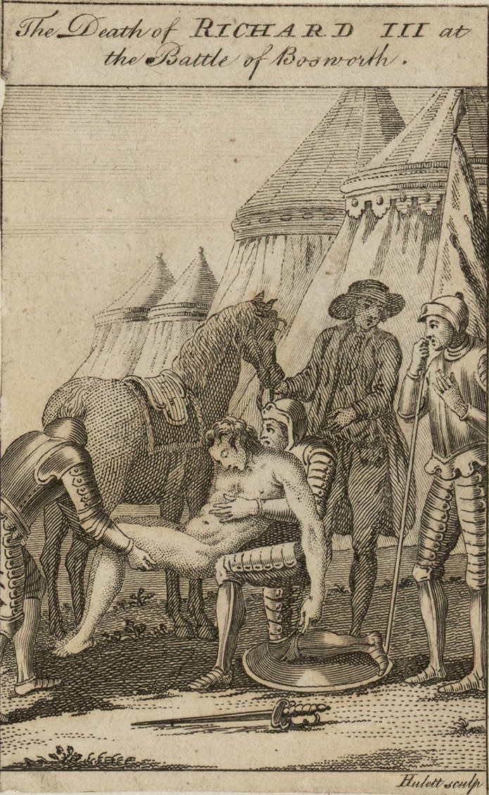 An image from a set of 8 extra-illustrated volumes of A tour in Wales by Thomas Pennant (1726-1798) that chronicle the three journeys he made through Wales between 1773 and 1776. These volumes are unique because they were compiled for Pennant's own library at Downing. This edition was produced in 1781. The volumes include a number of original drawings by Moses Griffiths, Ingleby and other well known artists of the period. Thomas Pennant (1726-1798)